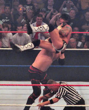 Kane chokeslamming CM Punk at Great American Bash